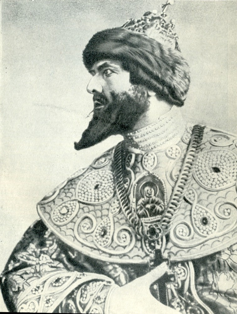 Russian bass, Feodor Chaliapin (1873 - 1938)